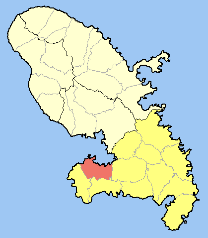 Location of Les Trois-Îlets within Martinique